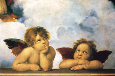 Two putti, as seen in the painting Sistine Madonna by Raphael